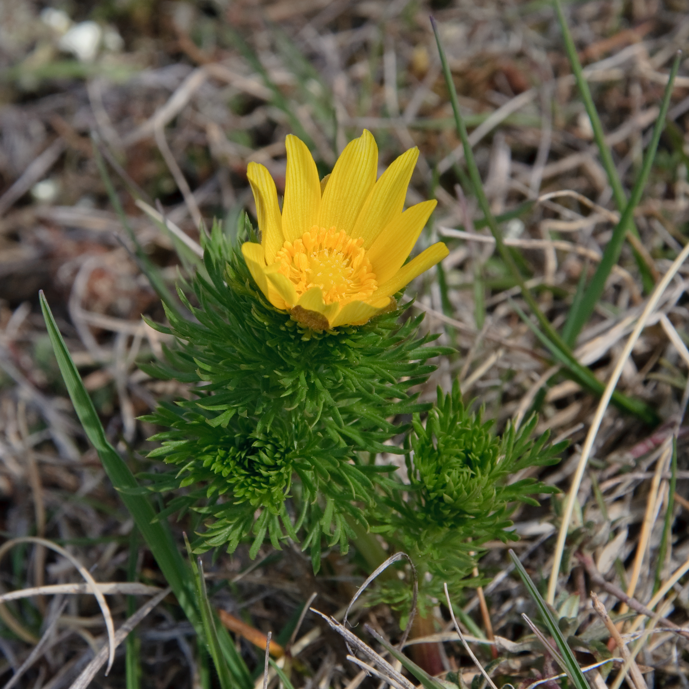 Spring pheasant's eye (Adonis vernalis), Causse de Sauveterre, Lozère, France.